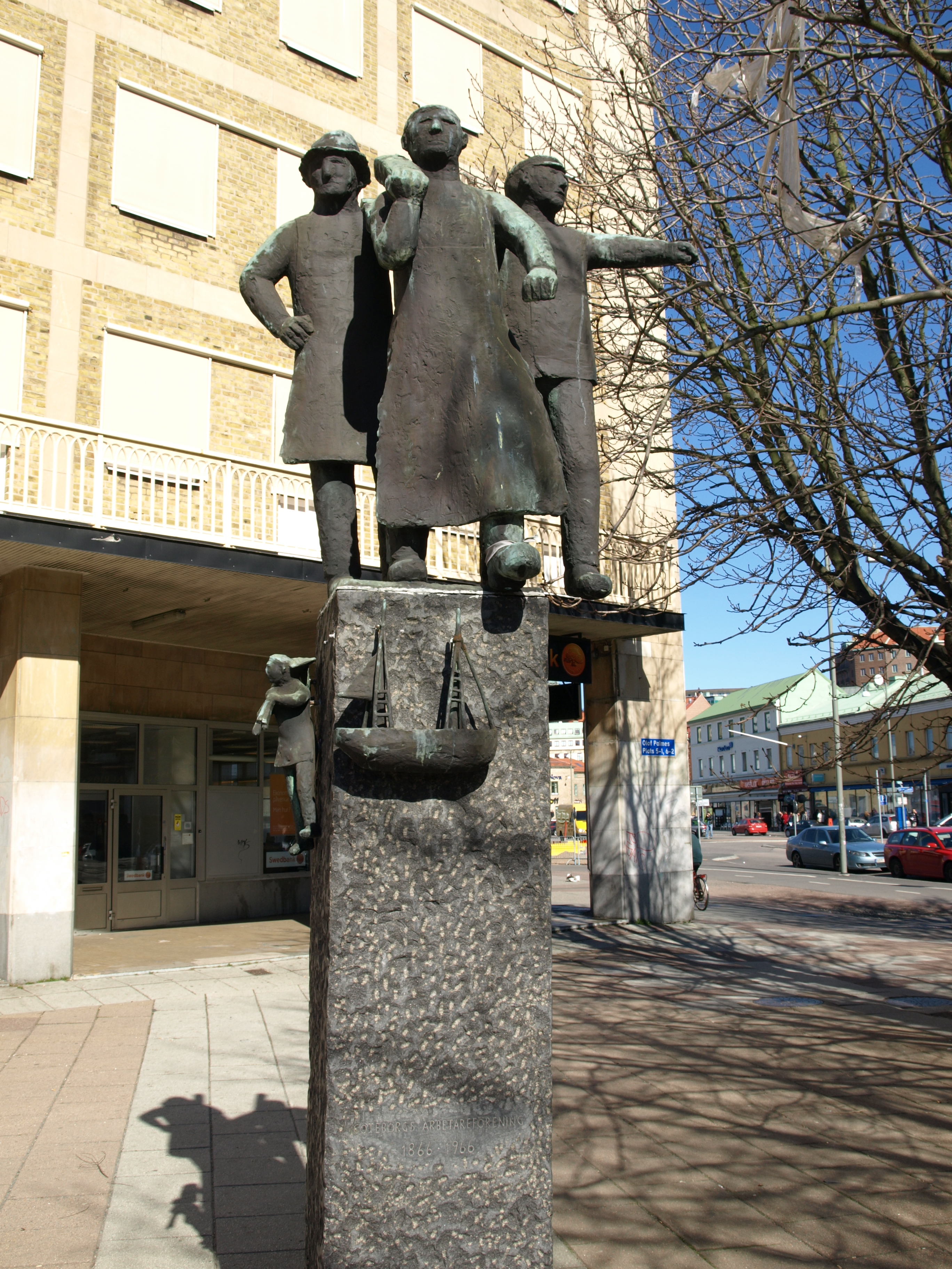 "Iron carriers", sculpture in Gothenburg, Sweden